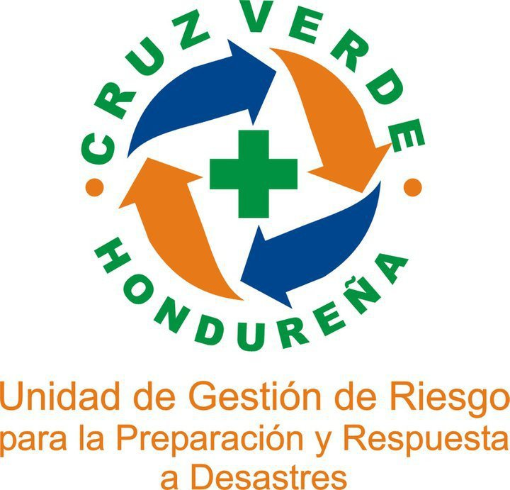 Cruz Verde Hondureña Logotype